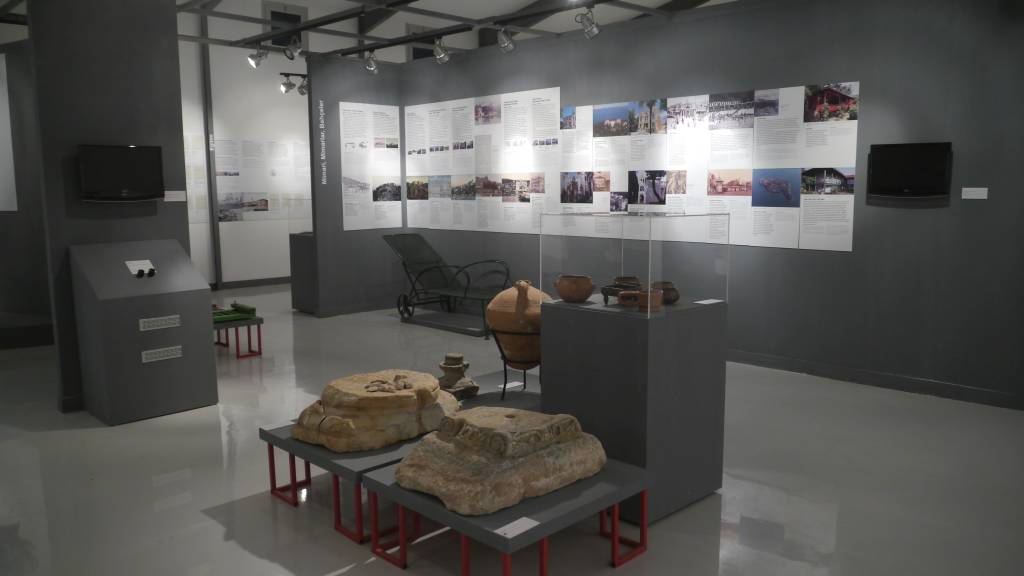 A view from the permanent exhibition of the Museum of the Princes' Islands